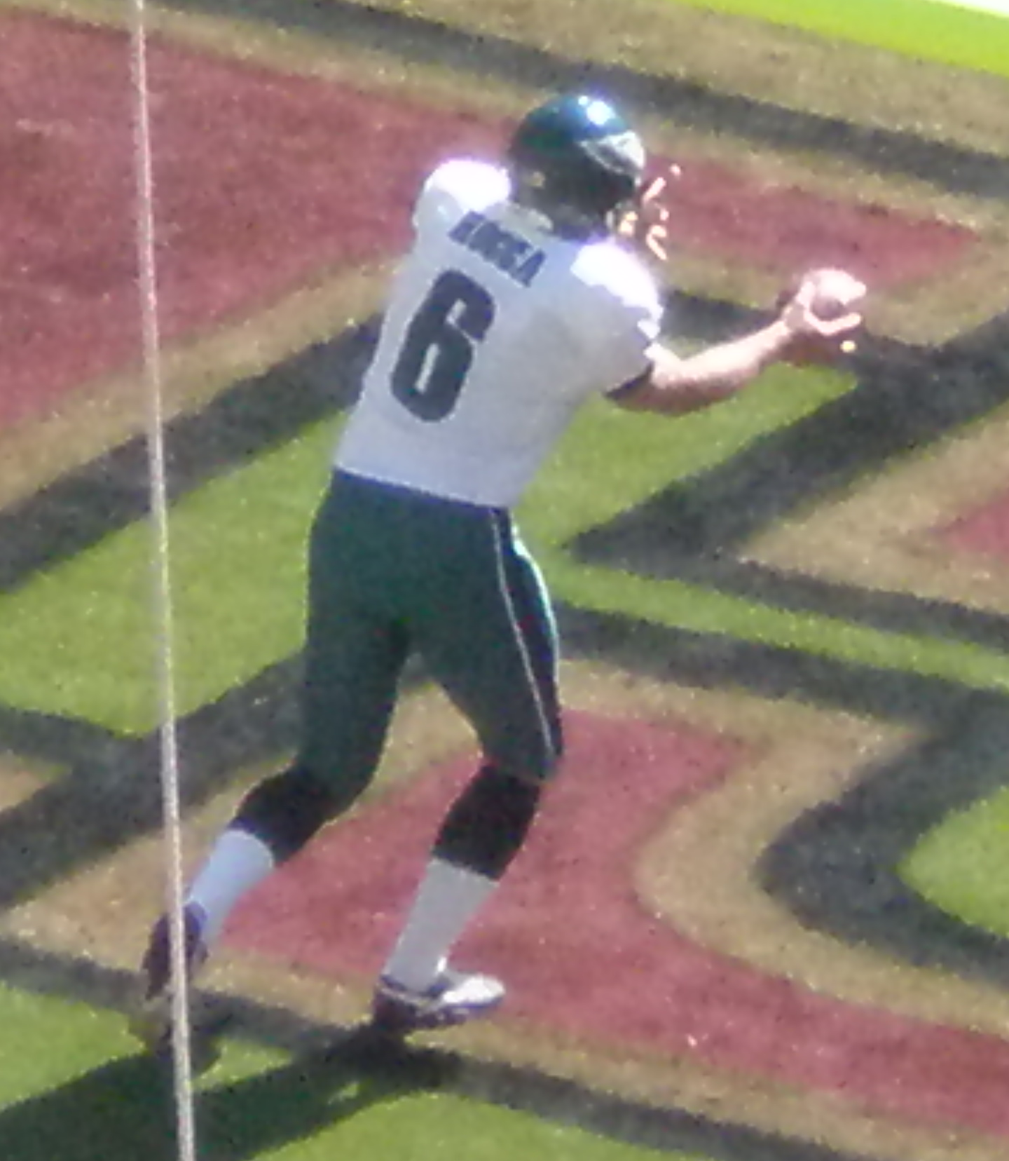 Philadelphia Eagles punter Saverio Rocca warming up on Bill Walsh Field at Candlestick Park prior to a regular season game against the San Francisco 49ers. The Eagles won 40-26.